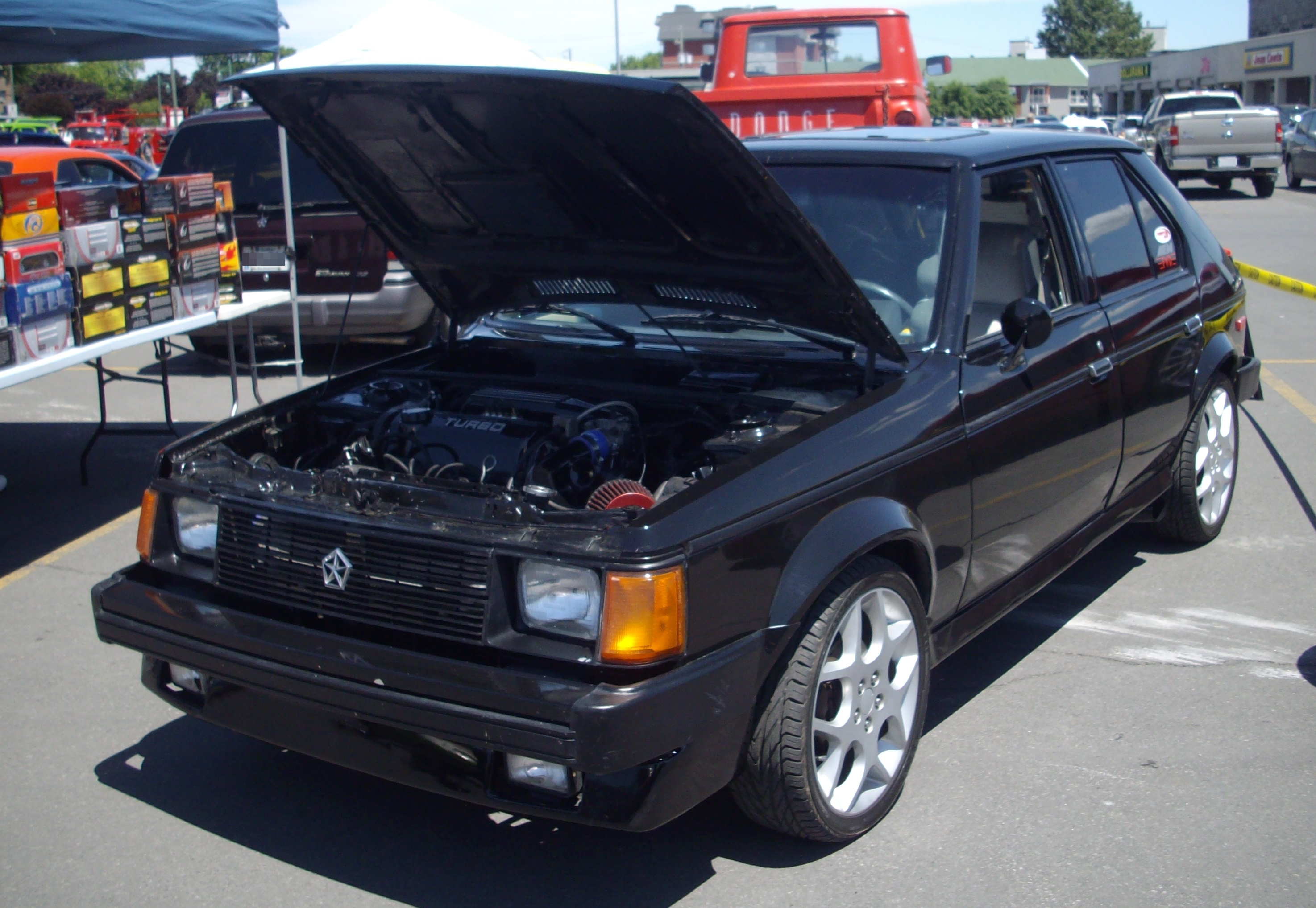 1986 Shelby GLHS photographed in Salaberry De Valleyfield, Quebec, Canada at Rassemblement Mopar Valleyfield 2012.